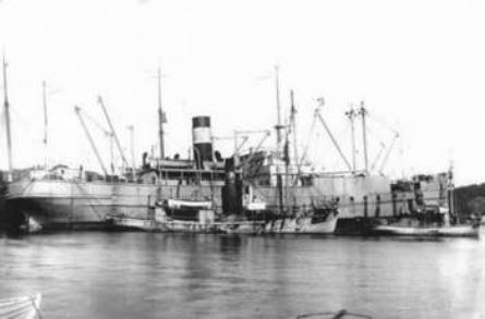 SS Ragnhild Bryde, 1923 ~ 1925 Norwegian registered by L. Bryde, Kritiania. Built as "War Yukon" (1918)